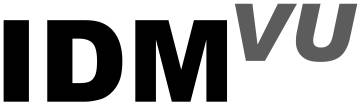 Infraastructure-Data-Management for public transport